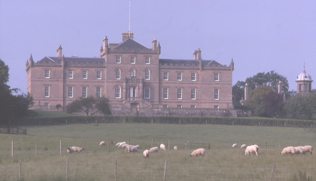 Darnaway Castle. This view of the castle shows the building of 1810. Behind it is the earlier 16th century Randolph's Hall, which boasts a fine hammer beam roof, and the portrait of the murdered 'Bonnie Earl o' Moray'.